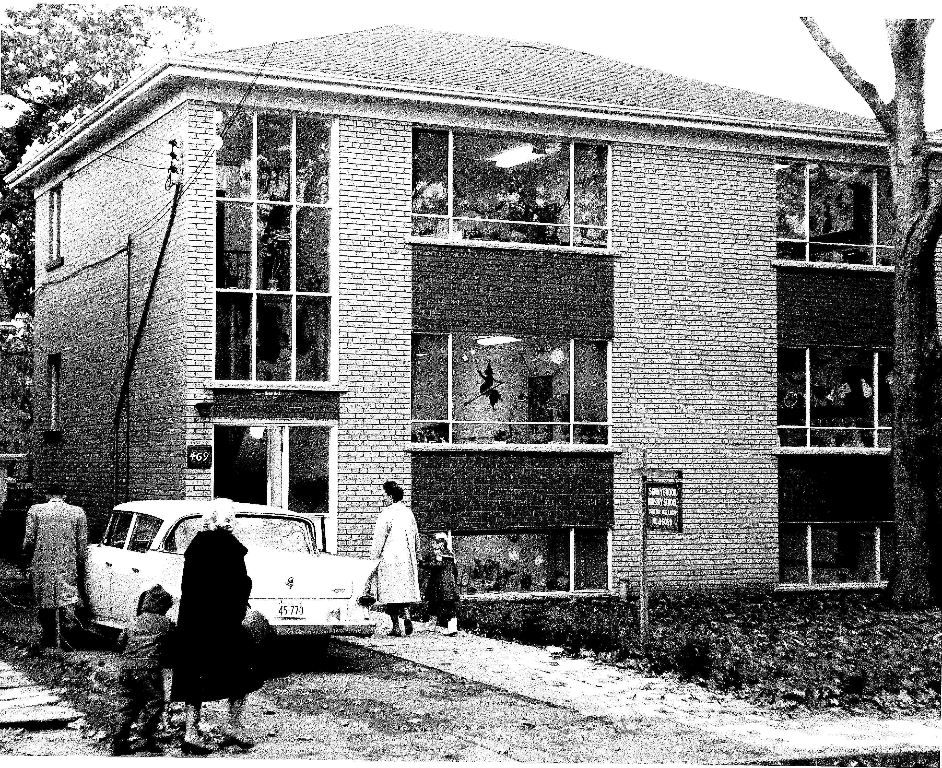 A photo of the first purpose-built building of Sunnybrook School in Toronto, Ontario, Canada. Photo was taken on Merton Street during the early 1960s.